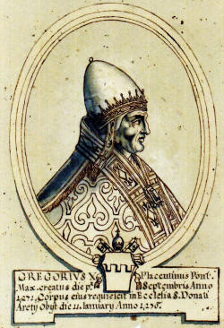 Sketch of Pope Gregory XI by 17th century artist